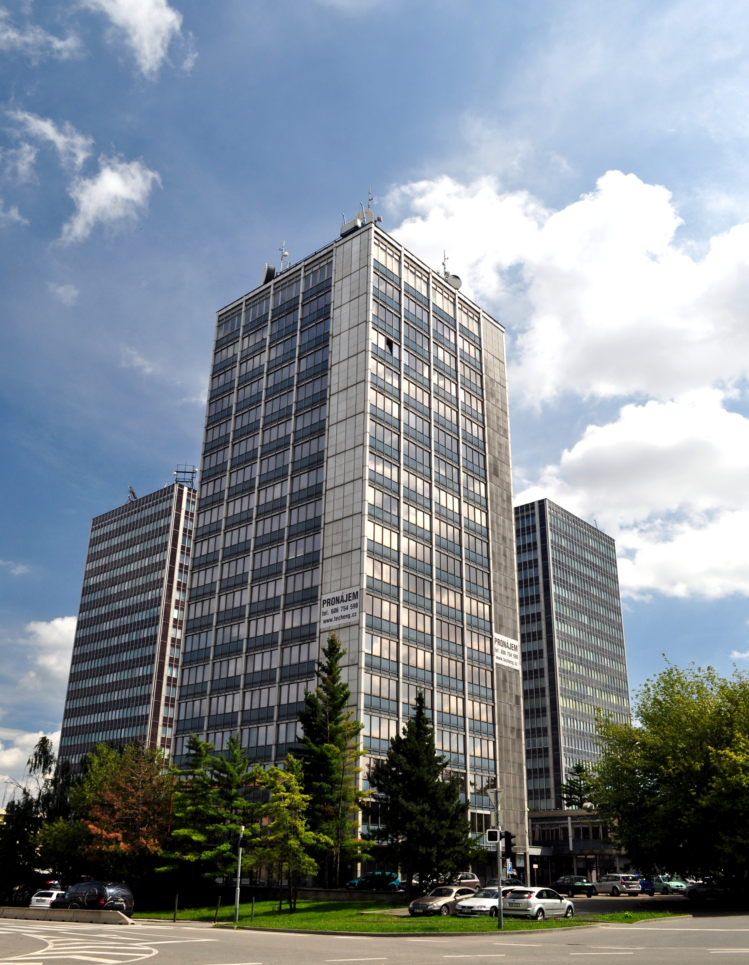 Office complex in Šumavská street